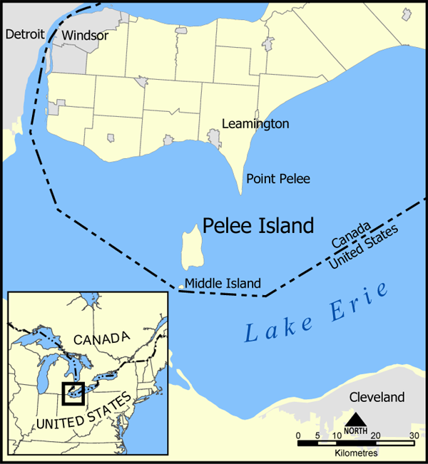 A map showing Pelee Island, Middle Island, and Point Pelee as well as the nearby communities of Leamington, Windsor, Detroit, and Cleveland. Created by NormanEinstein, May 11, 2005.